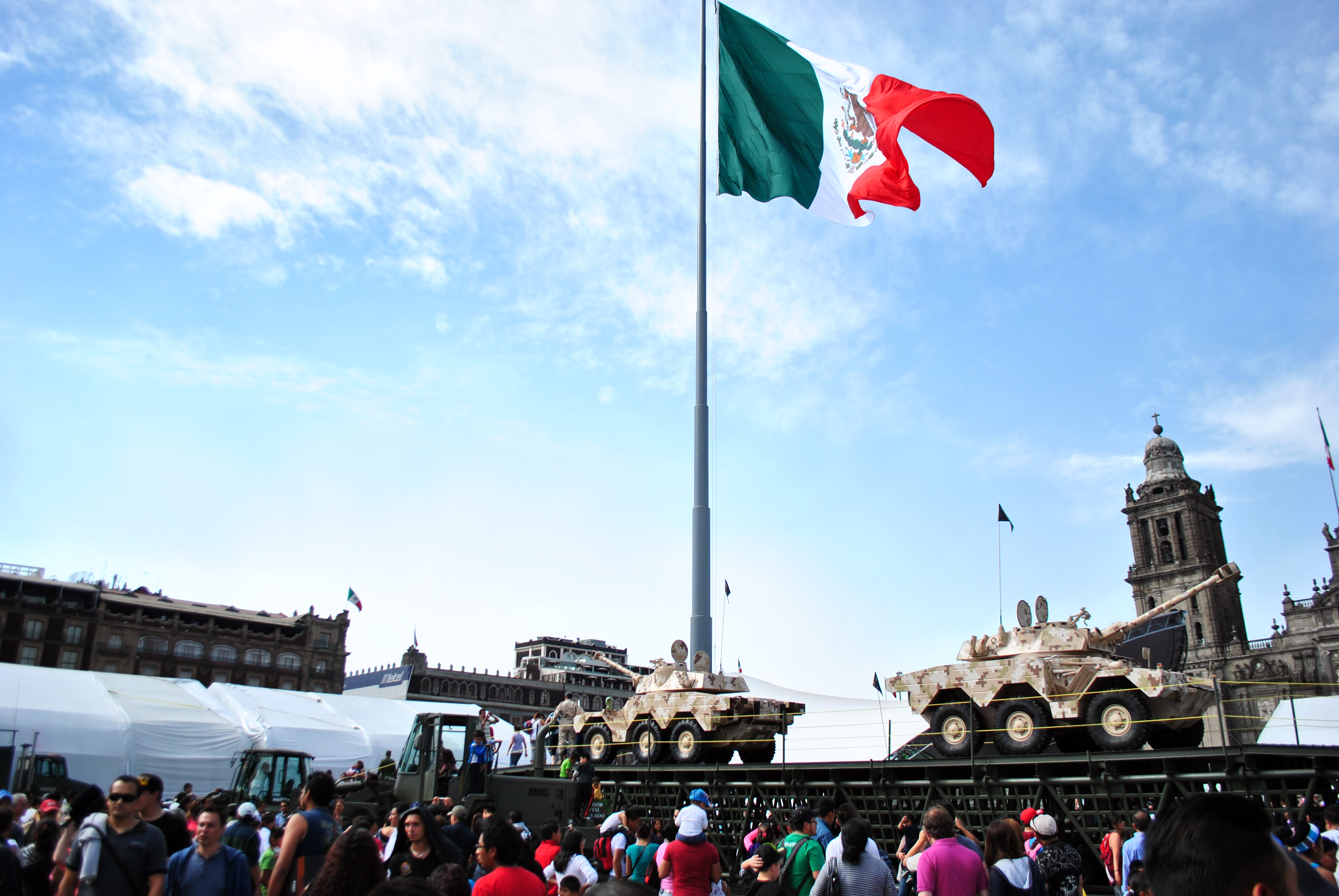 Exhibition "Armed Forces ... passion for service to Mexico," Zócalo of Mexico City.